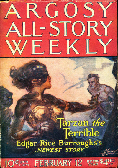 Argosy All-Story Weekly, February 12, 1921